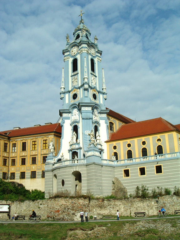 Belltower of Dürnstein from Donau, Wachau Austria.